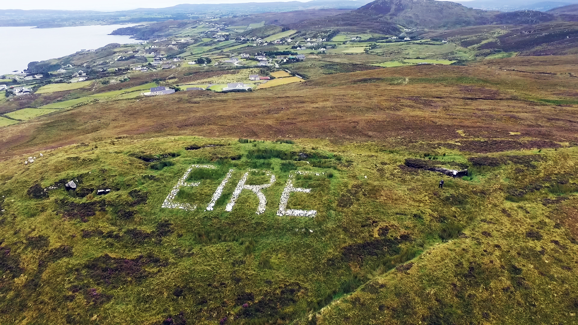 From 1939-1942 83 Lookout Posts, LOPs, were built at strategic points along coastline of Ireland. EIRE signs marked location of the LOPs.